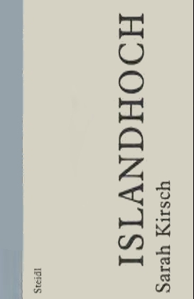 Book cover of Sarah Kirsch "Islandhoch" 2002